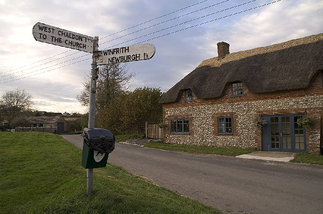 Chaldon Herring (or East Chaldon), Dorset. Tucked into small chalk valleys a short way to the east of Weymouth the village of Chaldon Herring (or East Chaldon) consists of – a small handful of dwellings, a church, a village hall and a public house.